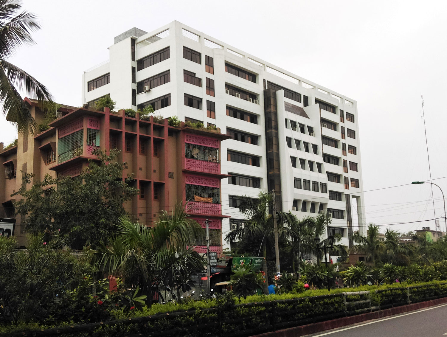 Rajshahi City Corporation established in 1976, is one of the major divisional city corporations of Bangladesh.